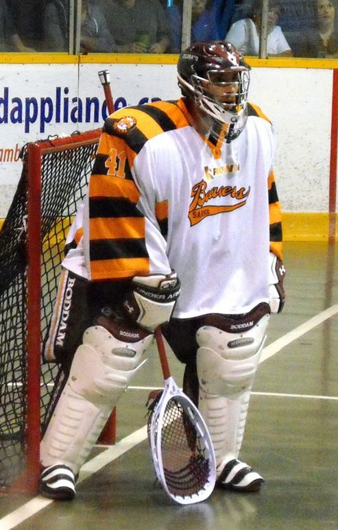 These images of Ontario Senior B Lacrosse Action action during the 2014 season are taken by Devan Mighton.